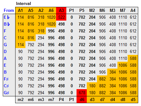 Sizes in cents of the 144 intervals in the D-based Pythagorean tuning system. Bold font indicates just intervals. Wolf intervals were highlighted in red. The values were accurately computed using Microsoft Excel, then rounded to integers. The image was produced using Microsoft Excel and captured with Microsoft Snipping Tool.